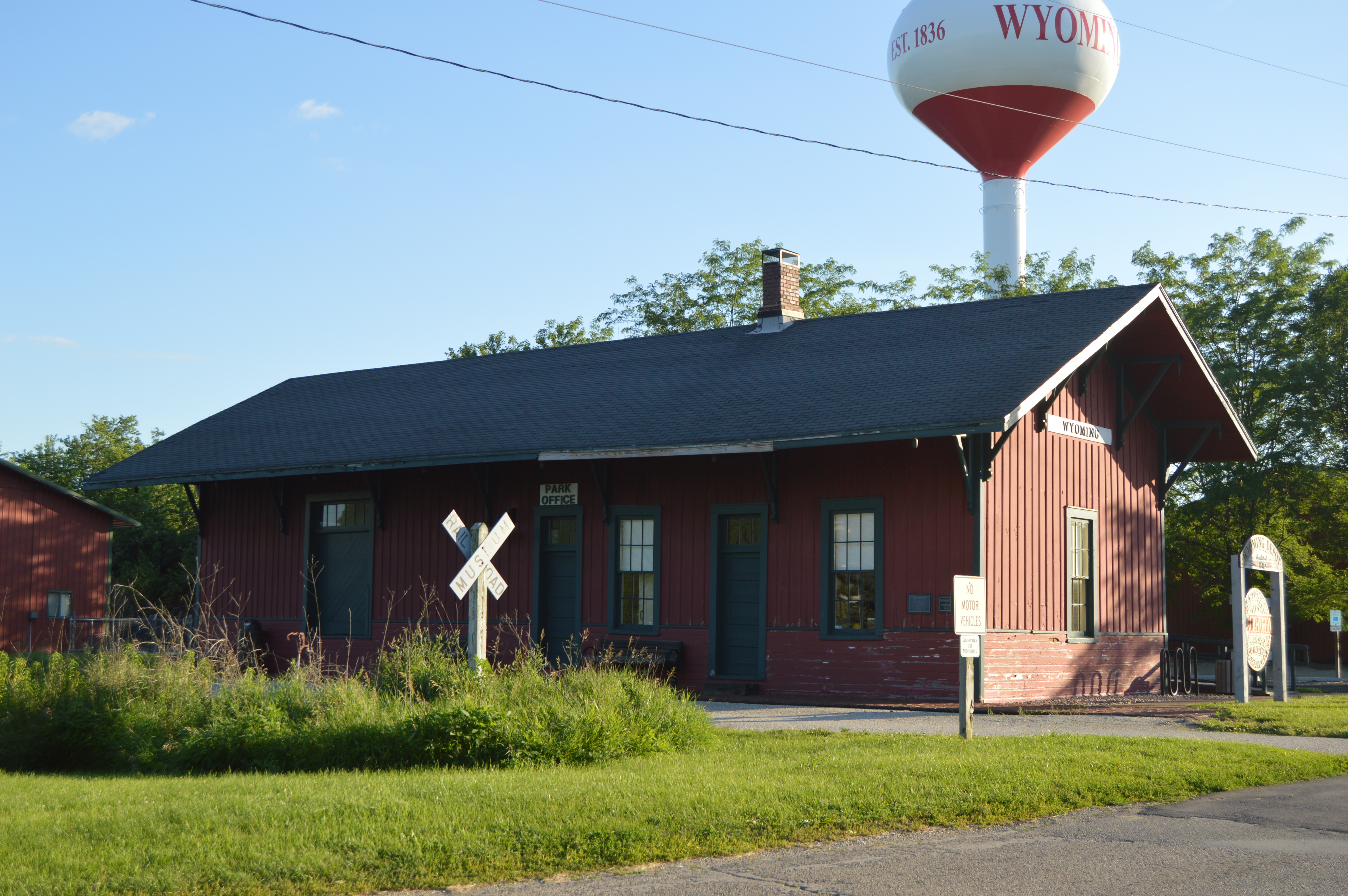 Front and northern side of the Wyoming CB&Q depot, located on the southern side of Williams Street along a rail trail in far eastern Wyoming, Illinois, United States. Built in 1871, it is listed on the National Register of Historic Places.